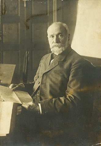 Jacob Nicolai Marstrand (1848-1935), Danish baker and Mayor of Copenhagen